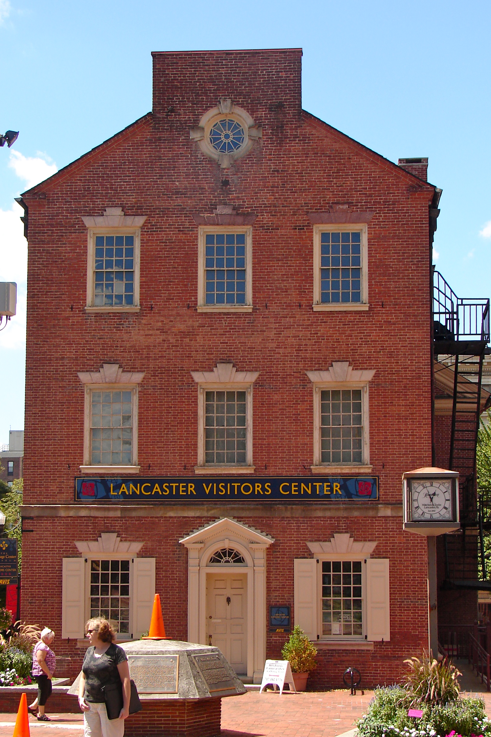 Old City Hall on the NRHP since June 30, 1972. On Penn Square in the Central Business District of Lancaster, Pennsylvania.